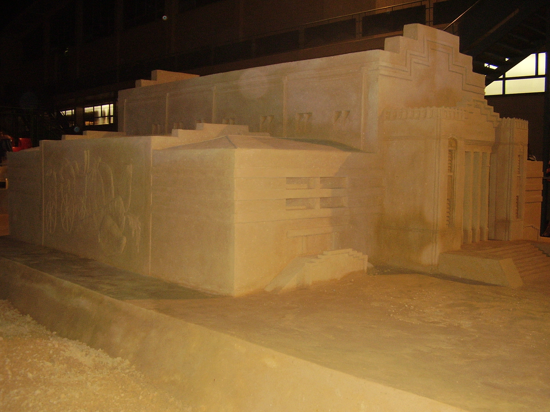 A sand model of the former Centennial Hall, Royal Adelaide Showgrounds, Adelaide, South Australia. on display during the Royal Adelaide Show 2007 after the hall was demolished